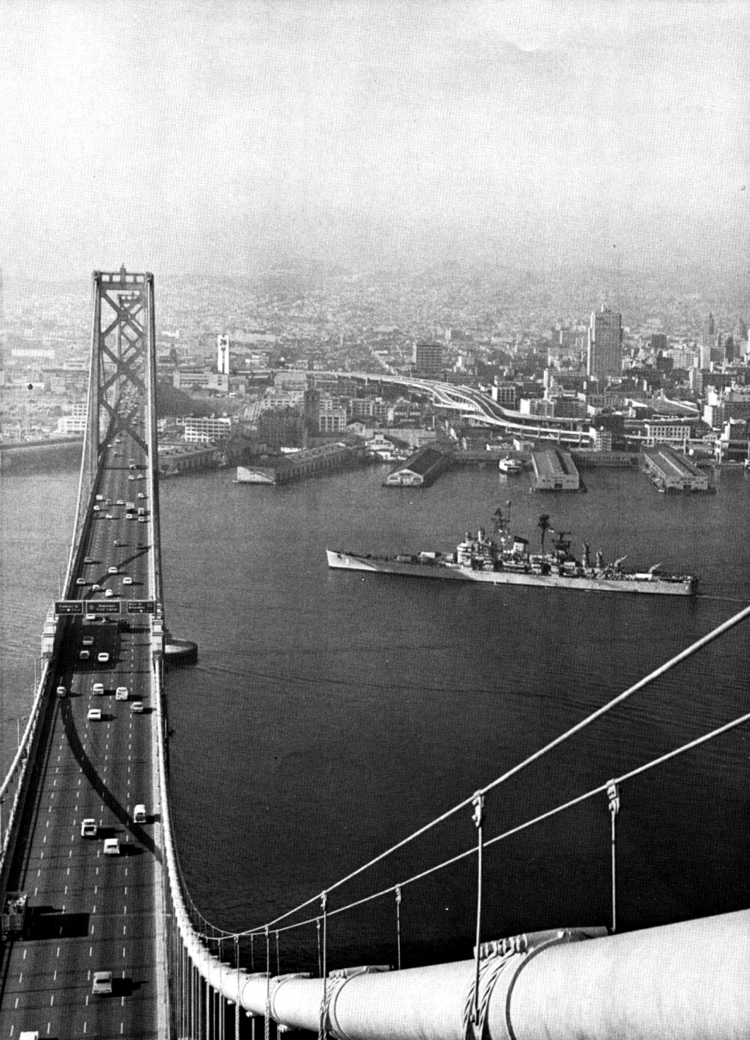 The U.S. Navy guided missile cruiser USS Canberra (CAG-2) nears the San Francisco-Oakland Bay bridge while making port with other U.S. First Fleet ships for a visit to San Francisco, California (USA), circa 1964.